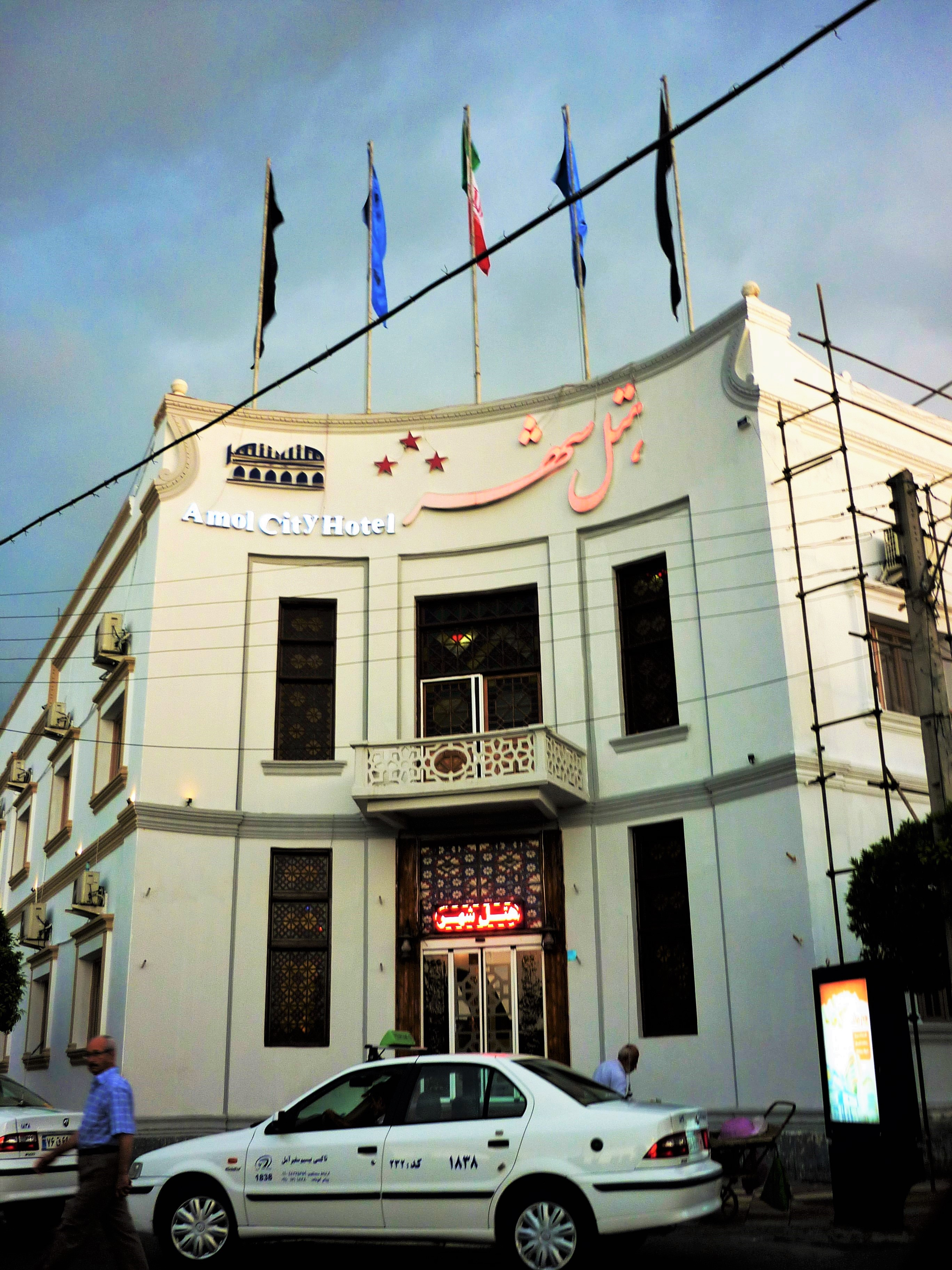 Hotel City or Hotel Shahr of Amol city